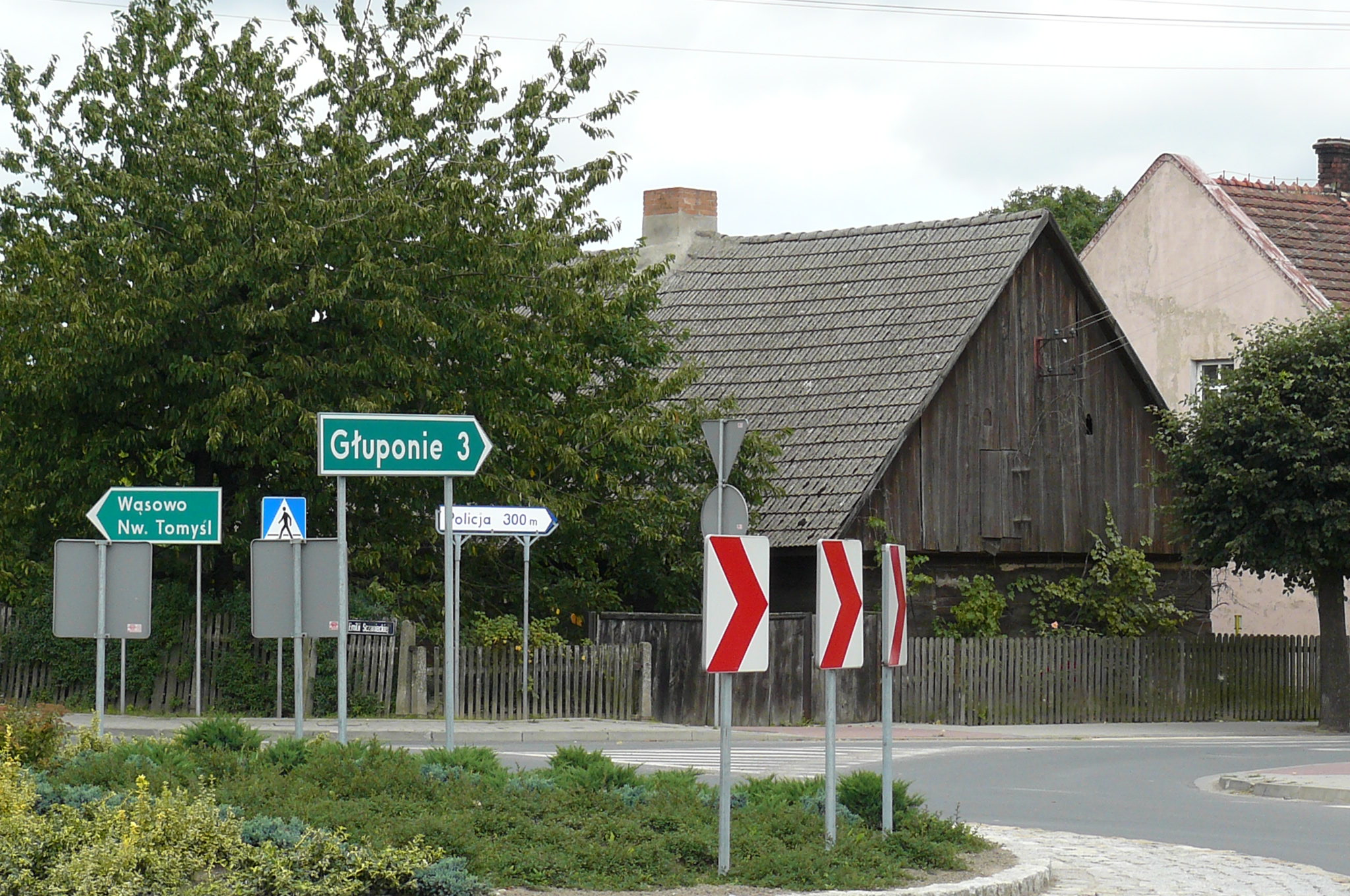 Wooden architecture in Kuslin.